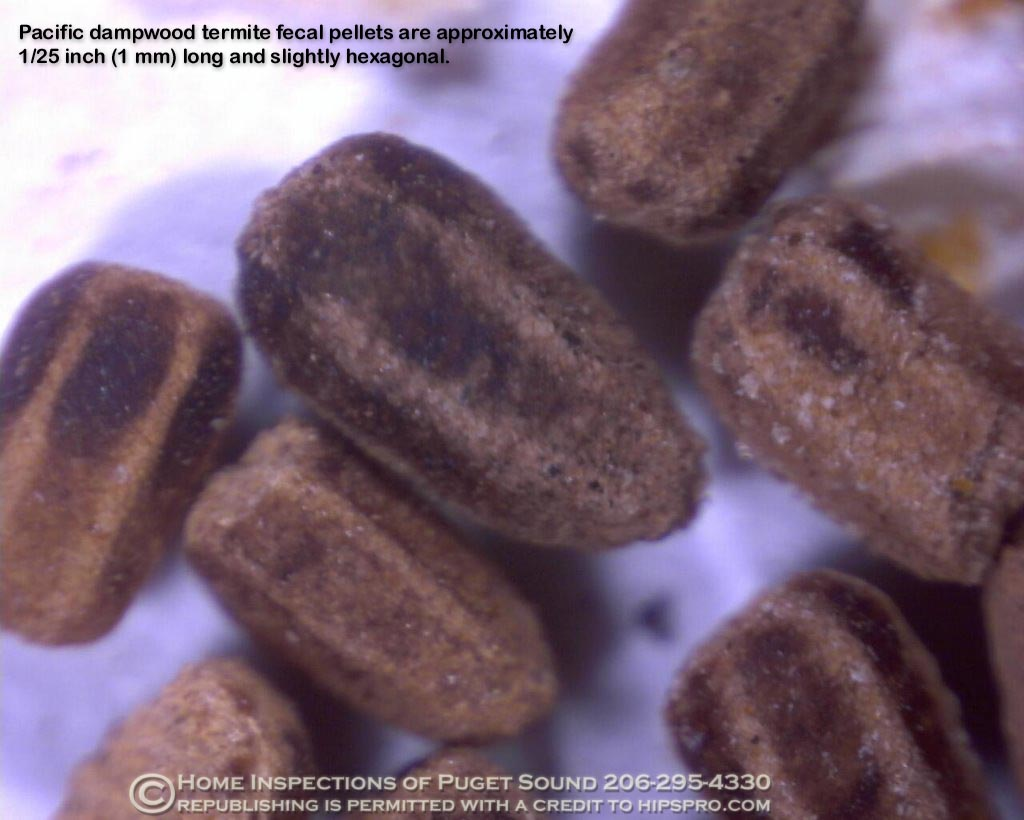 Pacific damp wood termite fecal pellets. Hexagonal droppings